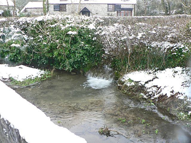 The Ogney Brook, Llantwit Major The brook comes in from the west before swinging to the south toward the Afon Col-huw where it enters at Wood Ford.